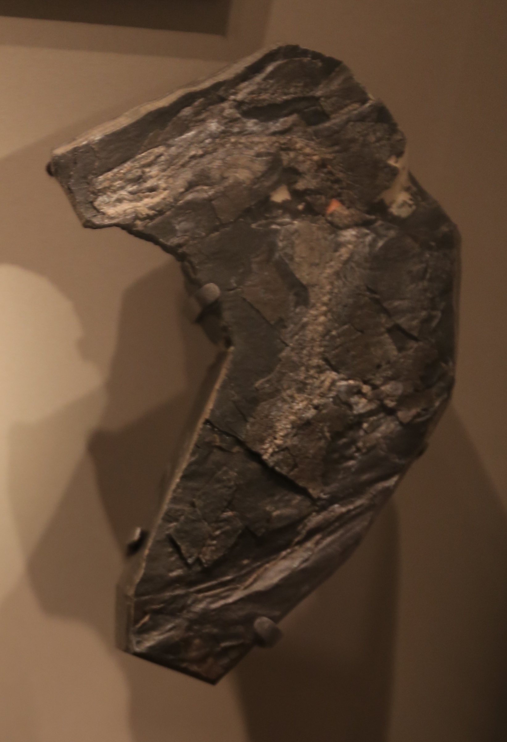 Photo of the Westlothiana lizziae type specimen